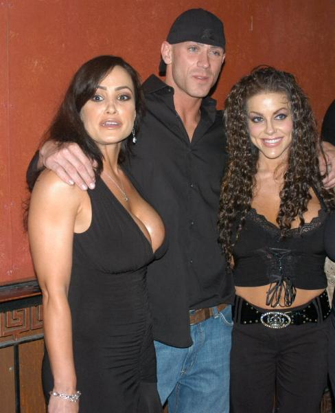 April 5 2007: Lisa Ann, Jonny Sins, Victoria Valentino at XRCO Awards 2007.